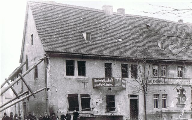 Damaged building in Eisleben, Germany, ca 1895